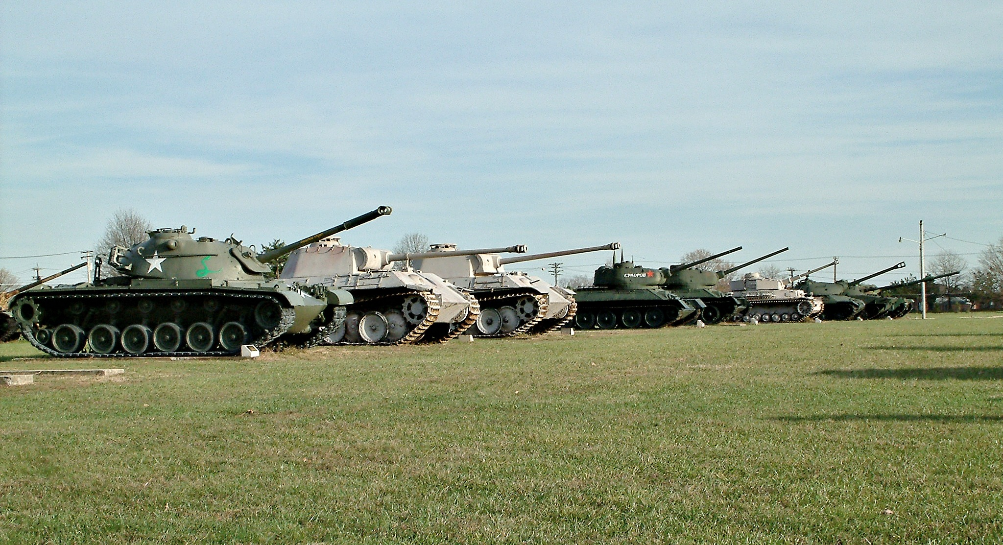 United States Army Ordnance Museum. Second row of tanks at APG OM outside exhibit. 1.1MB @ 2048 x 1536